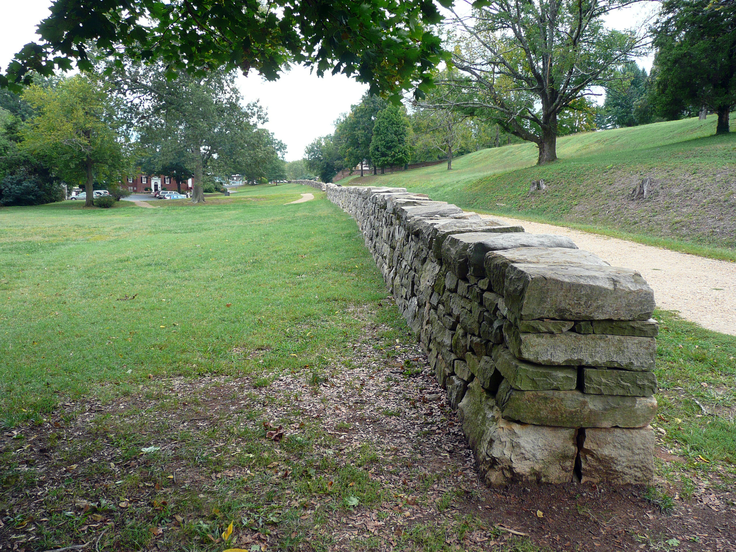 The sunken road on Marye's Heights, Fredericksburg, Virginia (Fredericksburg and Spotsylvania National Military Park). During the American Civil War Battle of Fredericksburg, 3000 Confederate troops were lined up in multiple ranks behind the stone wall for about 600 yards, and another 3000 were atop the slope behind it, along with their artillery.